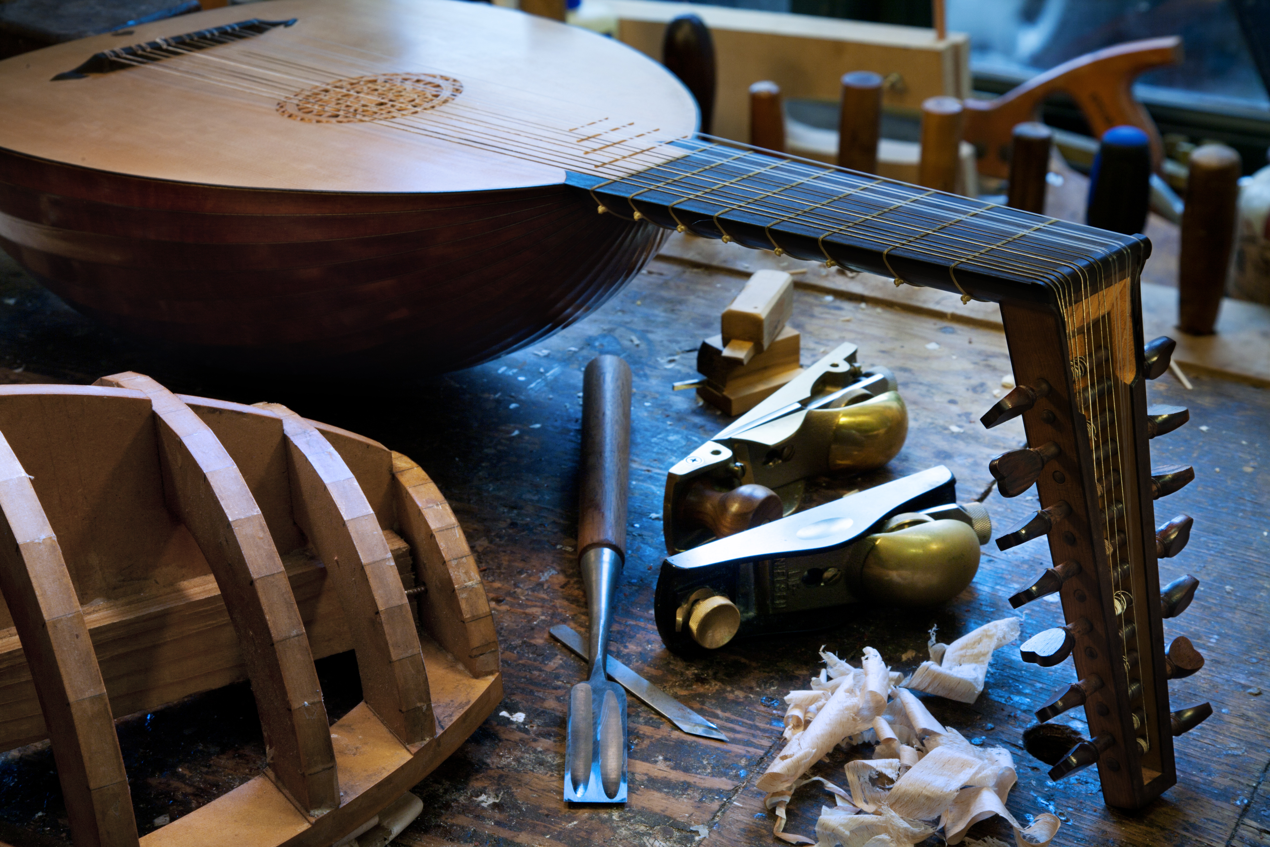 Tools in a Lute Maker workshop